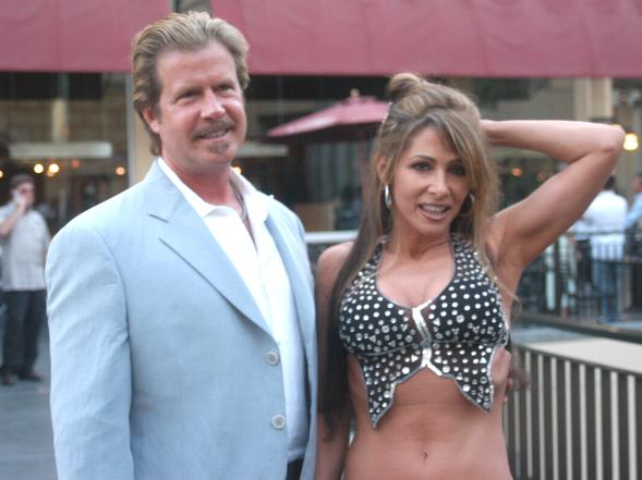 Luc Wylder and Alexandra Silk at Free Speech Coalition dinner dance on July 17, 2005